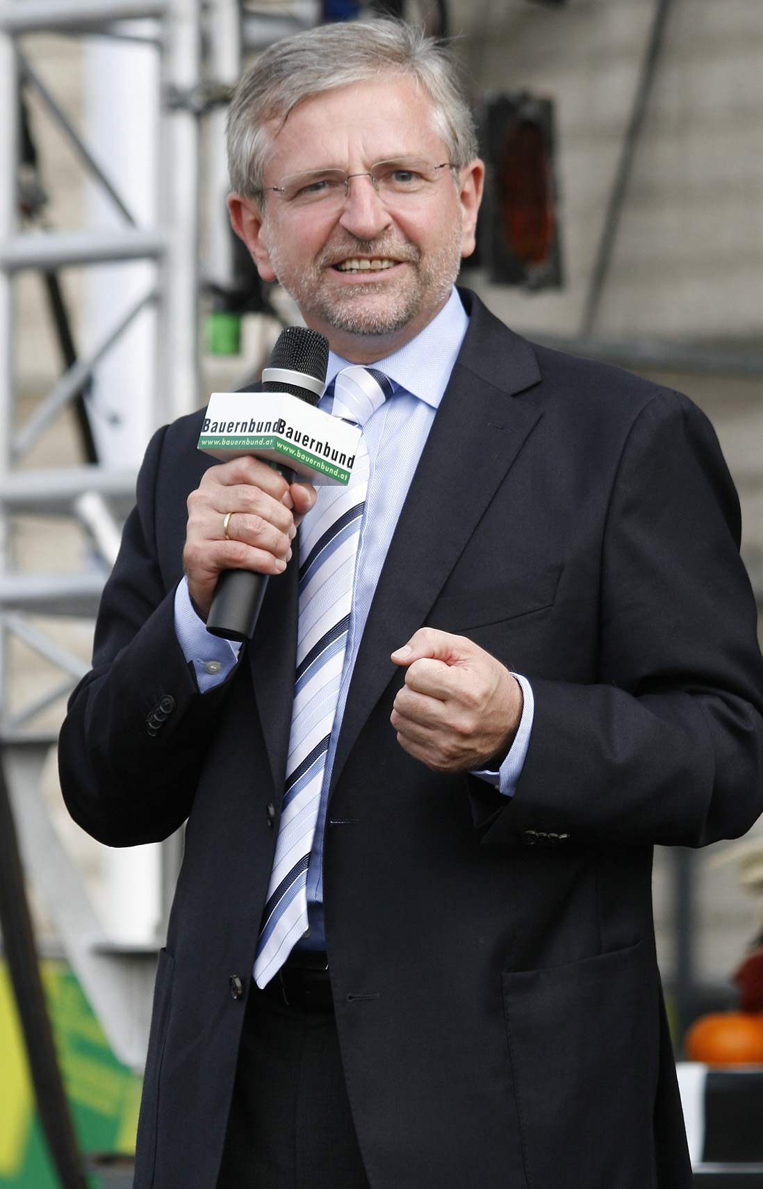 Austrian politician Wilhelm Molterer at the annual harvest festival of the ÖVP-Bauernbund at the Heldenplatz in Vienna)